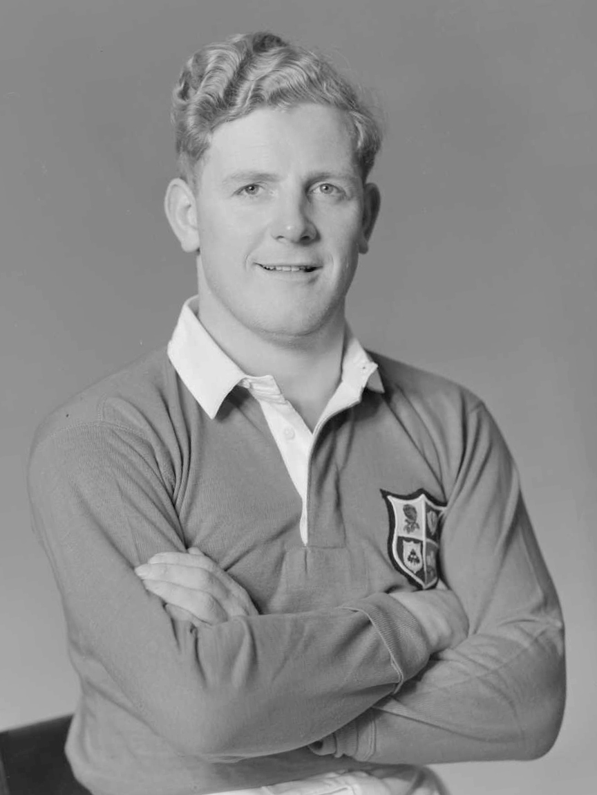 W B Cleaver, member of the British Lions rugby union team